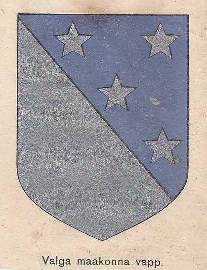 Coat of arms of Valga County, Estonia, 1937